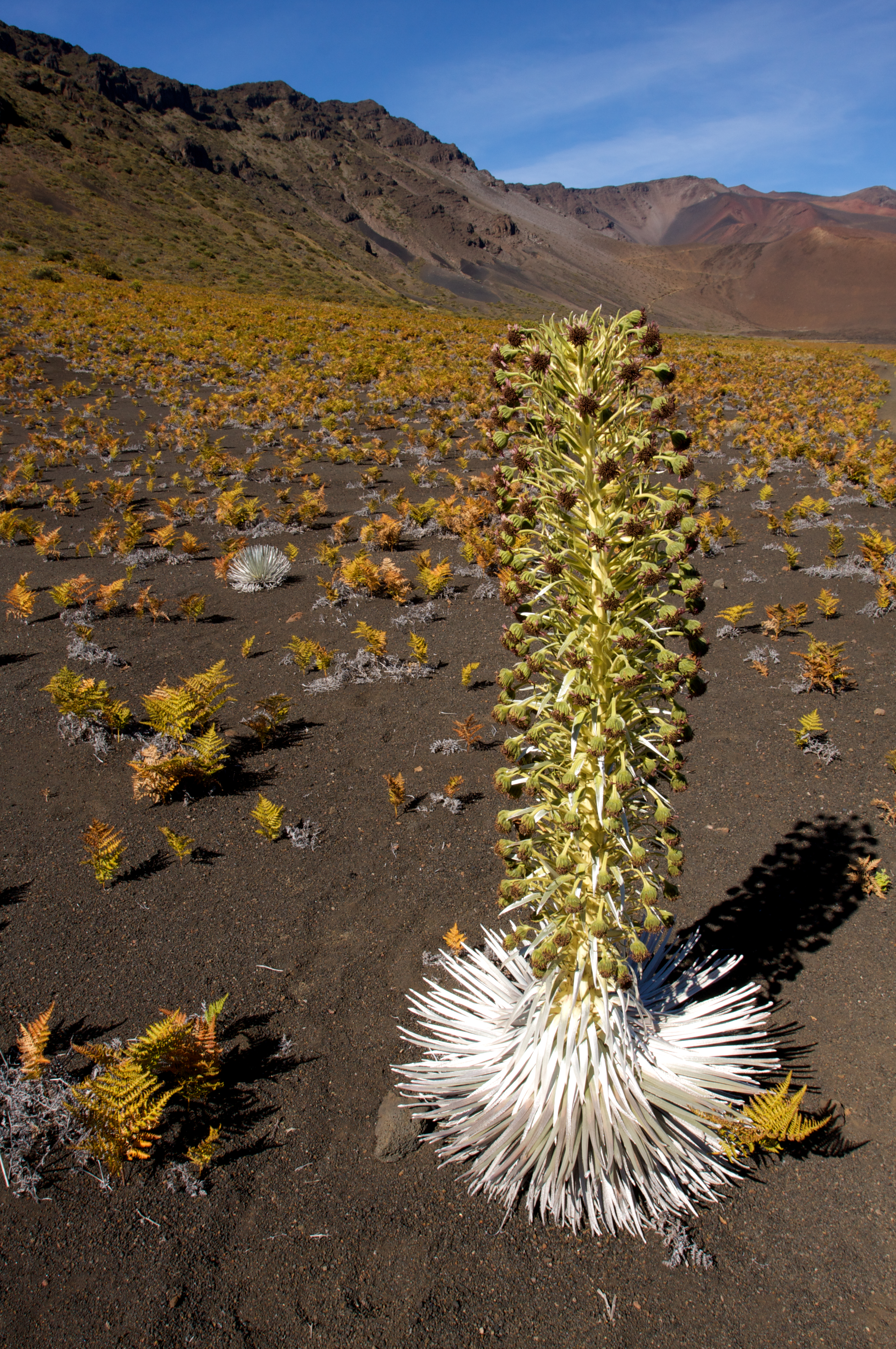 Silversword, (Argyroxiphium sandwicense ??), Hawaii